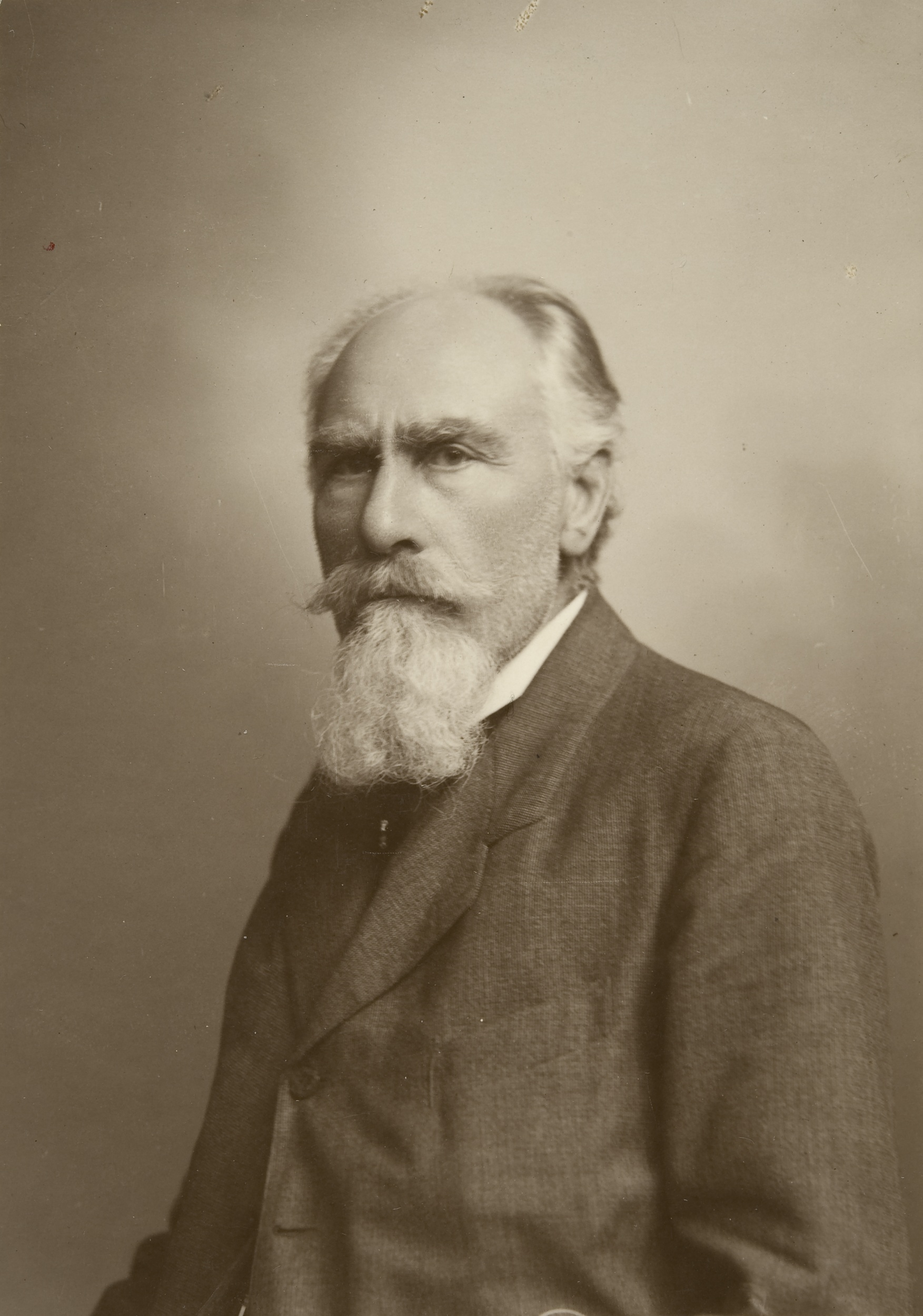 Photograph of the Finnish archaeologist Hjalmar Appelgren-Kivalo (1853–1937).